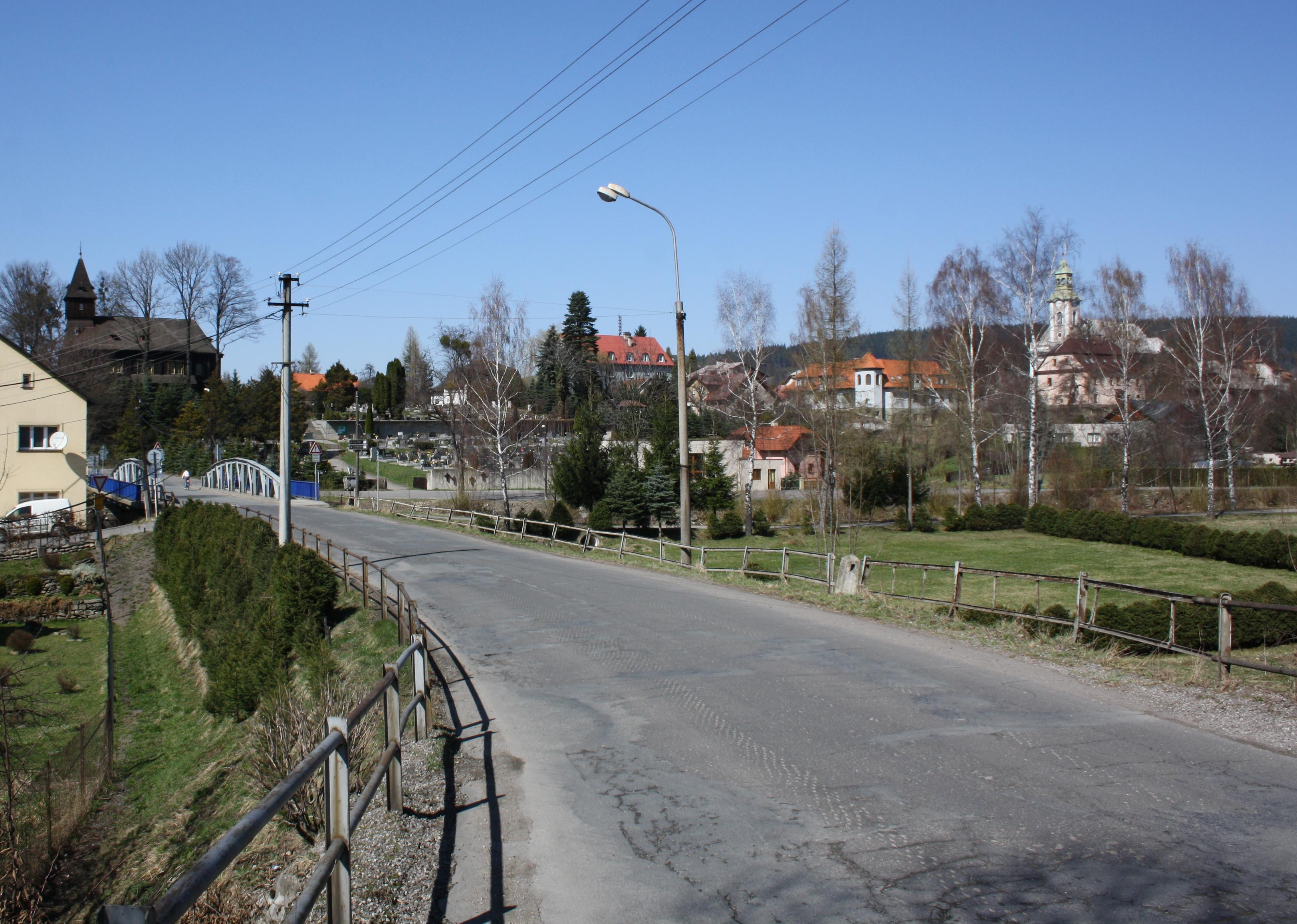 Bystřice, Frýdek-Místek District, Moravian-Silesian Region, Czech Republic This photograph was taken with a DSLR from WMCZ's Camera grant.